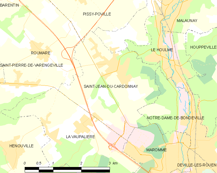 Map of French municipality Saint-Jean-du-Cardonnay